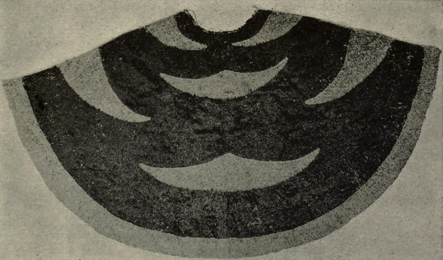 The Kearny Cloak, Memoirs Bishop Museum, Vol. VII, Fig. 36. A cloak of ʻiʻiwi red, with broad basal border, two spherical triangles and four semi-crescents of ʻōʻō yellow; the front narrow borders are also of yellow, while the neck band alternates red and yellow. The dimensions are: breadth 96 inches; depth at back, 48.5 inches; in front 43 inches; the base measures 144 inches. It was given to the late Commodore Lawrence Kearney, U. S. N., by Kamehameha III on the occasion of the Commodore's visit to Honolulu in 1843 on a diplomatic errand from the United States Government. It was afterwards an inheritance to the Commodore's son, and is now in the American Museum in New York. The feathers are much damaged although the red have suffered less than the ʻōʻō, and the net is visible in places especially on the lower part of the ahuula. No. 57 in the list of ahuula. Kauikeaouli must have valued the services of the distinguished officer very highly if we judge by this gift which at the time of presentation some seventy-five years before this photograph was taken must have been in prime order.